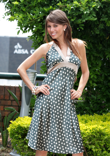 Miss Uruguay 2008 Fatimih Davila during Miss World 08